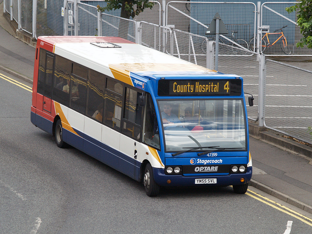 1-Stagecoach in Lincolnshire bus 47399 (reg. YM55 SVL), a 2006 Optare Solo M1020 midibus, on Pelham Street, Lincoln with the 12:05 Lincoln Central Bus Station and County Hospital circular 4 service.